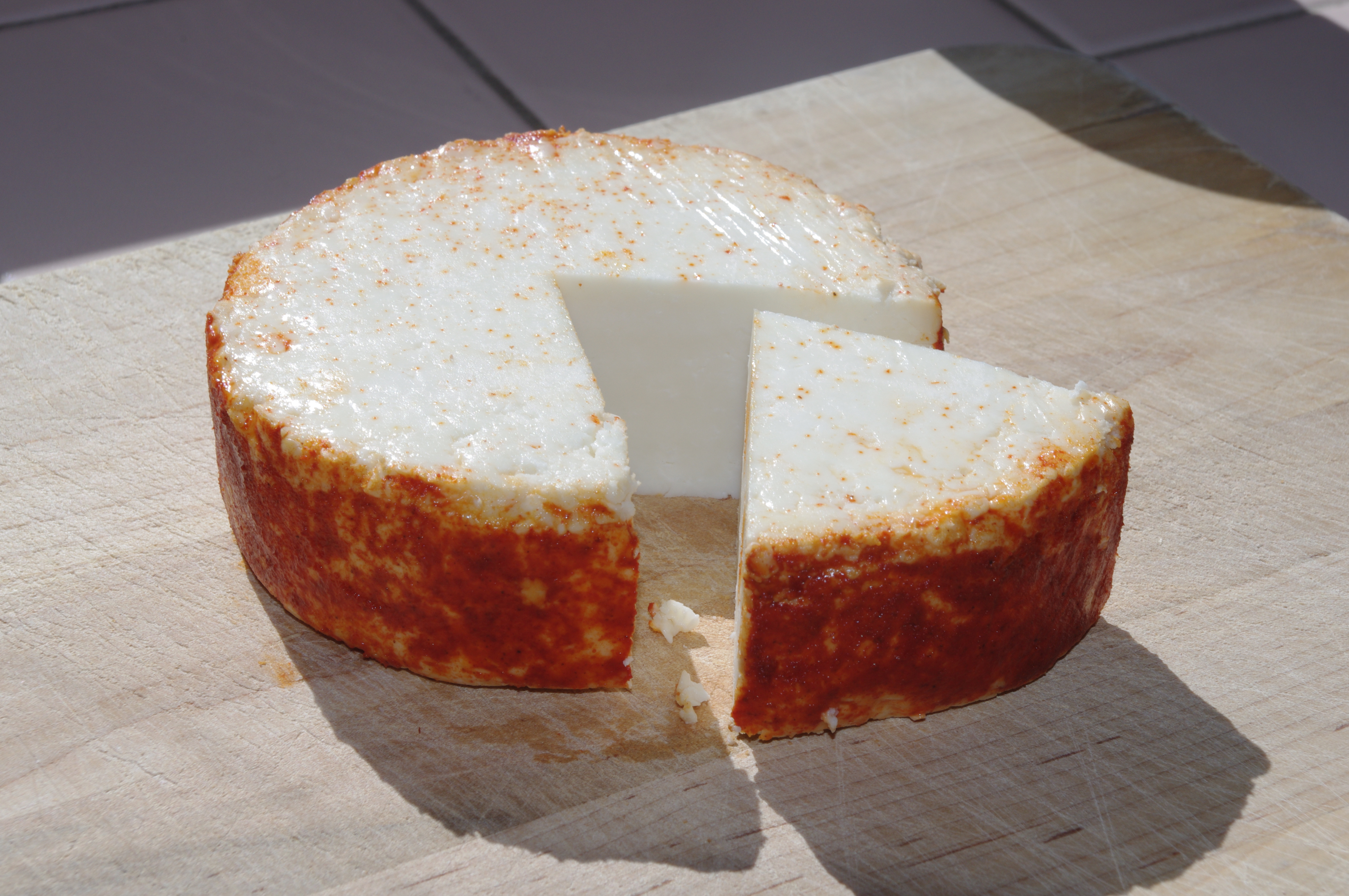 Añejo cheese is a firm, aged Mexican cheese traditionally made from skimmed goat's milk but most often available made from skimmed cow's milk. After it is made it is rolled in paprika to add additional flavor to its salty sharp flavor, which is somewhat similar to Parmesan cheese or Romano cheese, but not as strong flavored as Cotija cheese.